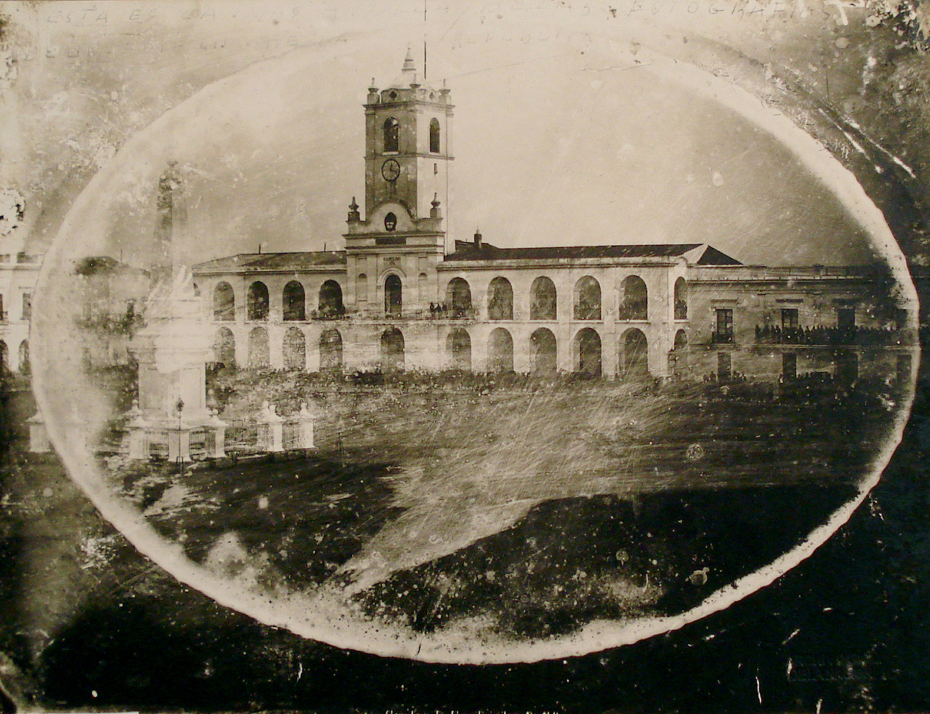 Cabildo of Buenos Aires. The photo (a daguerreotype of 16 x 21,5 cm) is considered the oldest existing photo of a building in Argentina. The picture was severely damaged after being cleaned with a cloth.